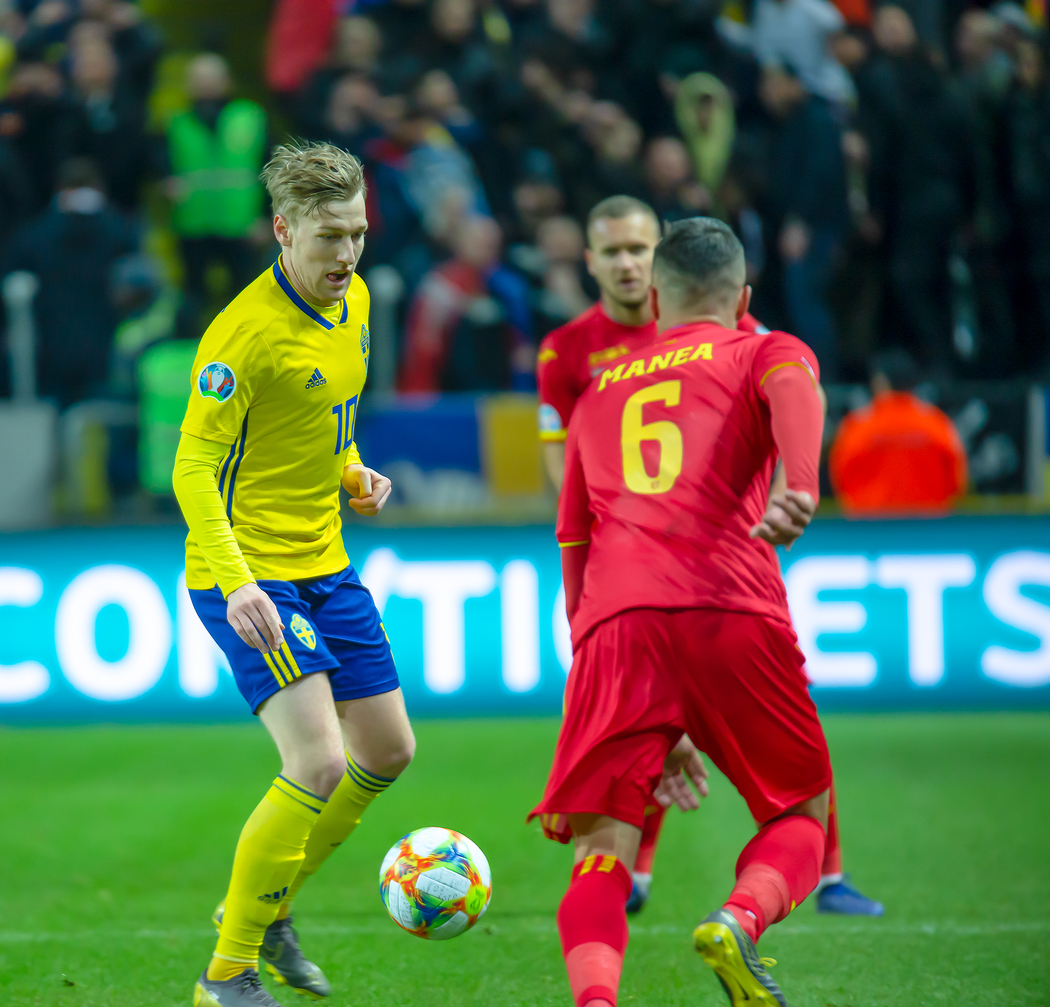 UEFA EURO qualifiers Sweden vs Romaina 20190323